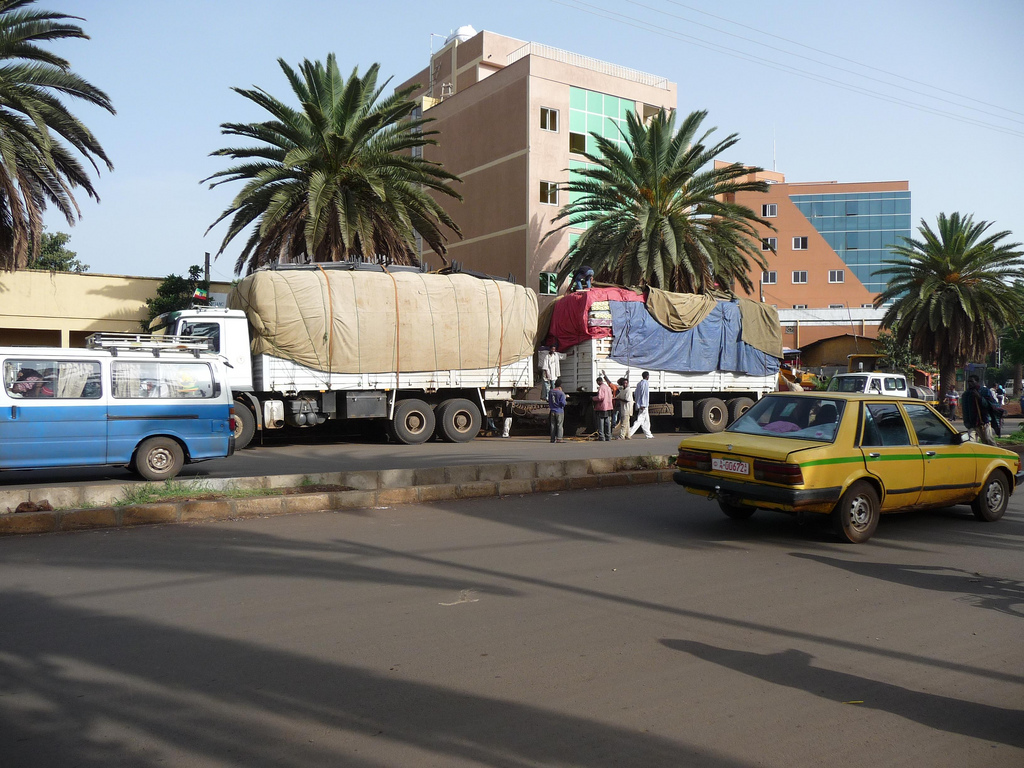 City center of Bahir Dar, Ethiopia.